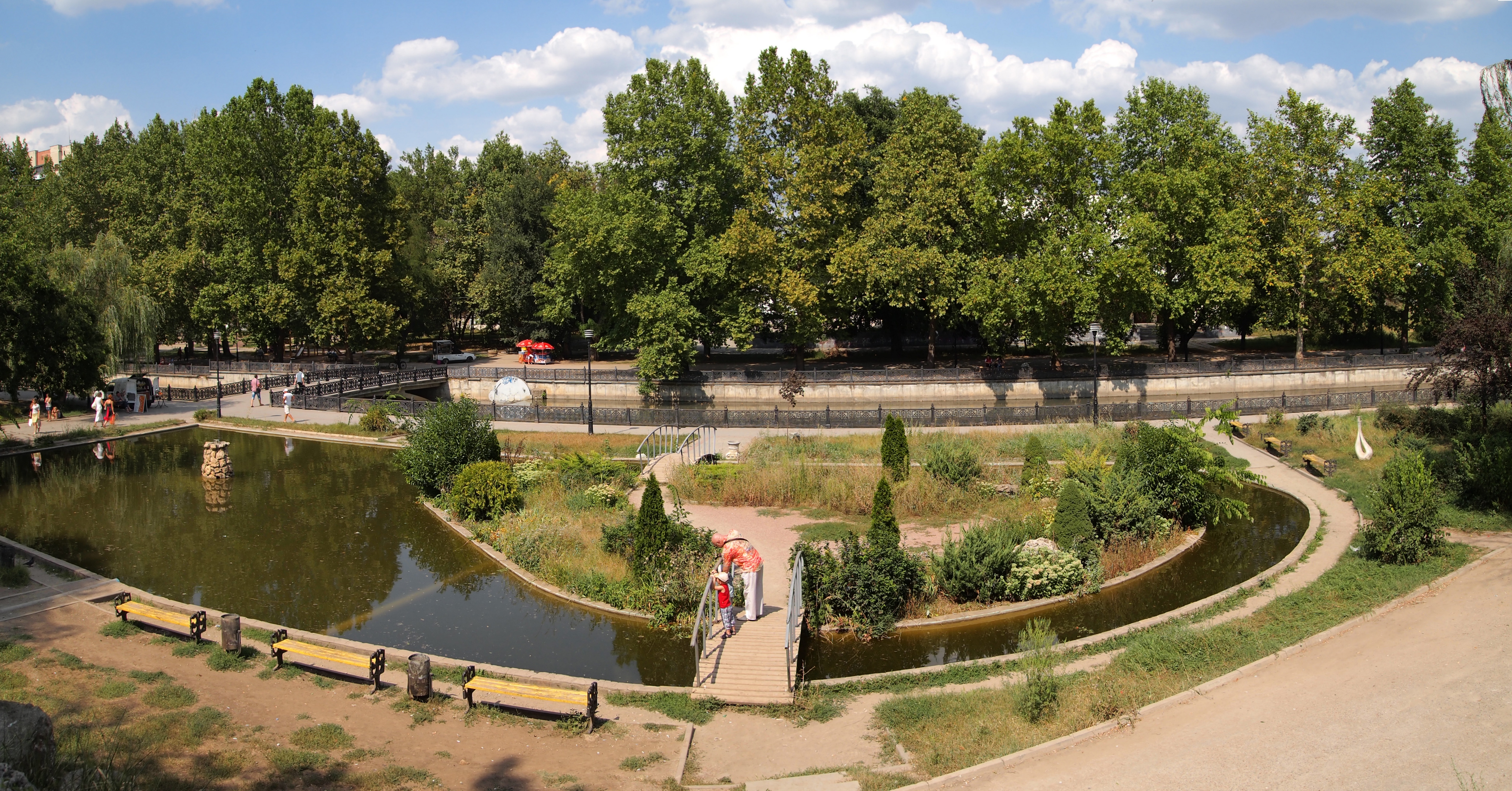 Pond in a park, Simferopol. This photograph was taken with an Olympus E-PL1.